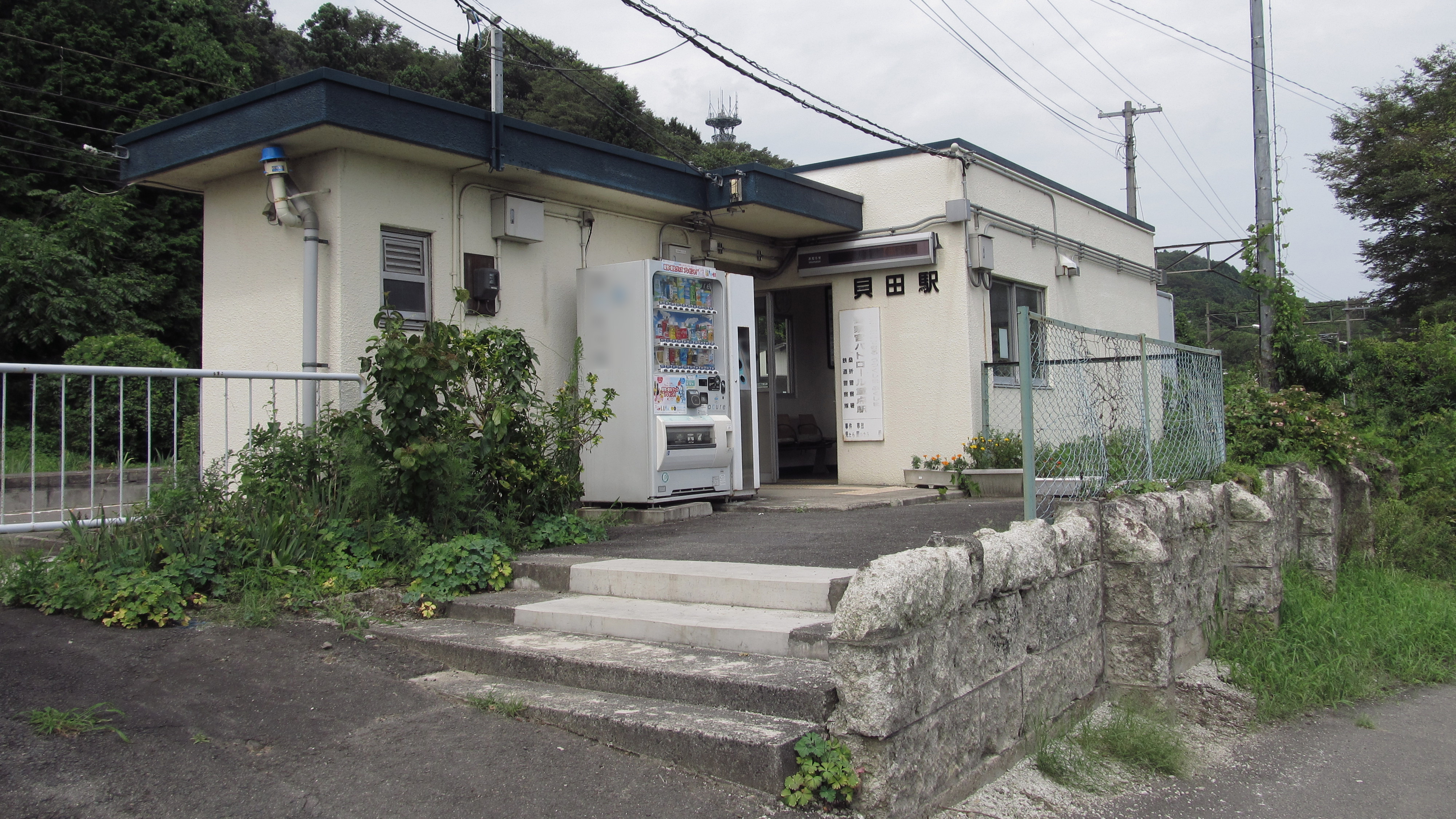 The building of Kaida Station on the Tōhoku Main Line in Kunimi town, Fukushima prefecture, Japan